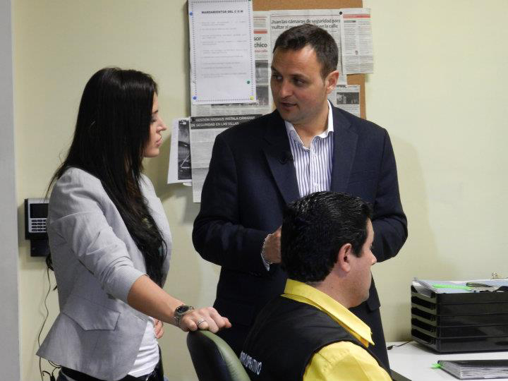 jesicacirio en Imapcto9